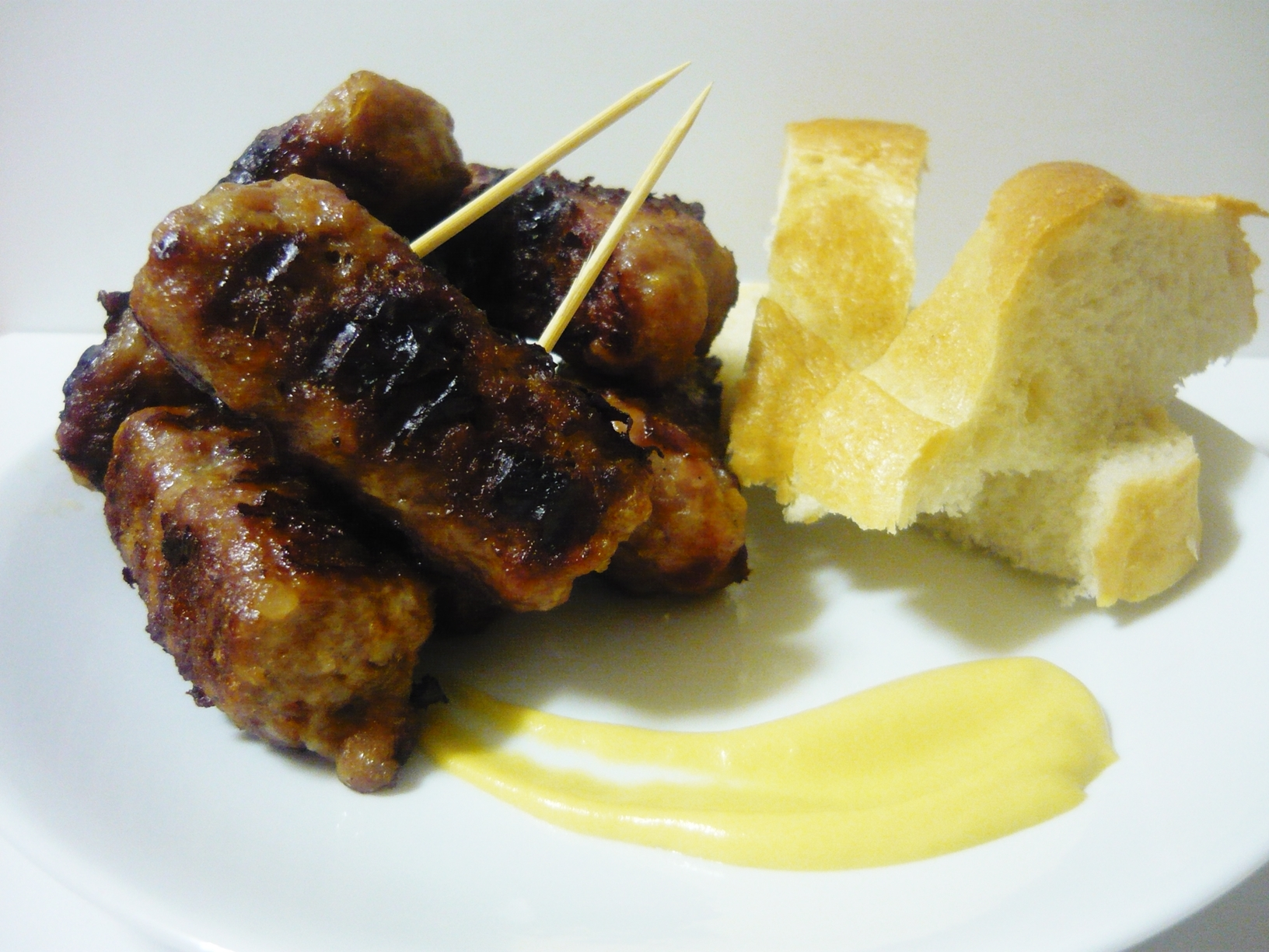 Mititei - Romanian traditional recipes - Romanian Food